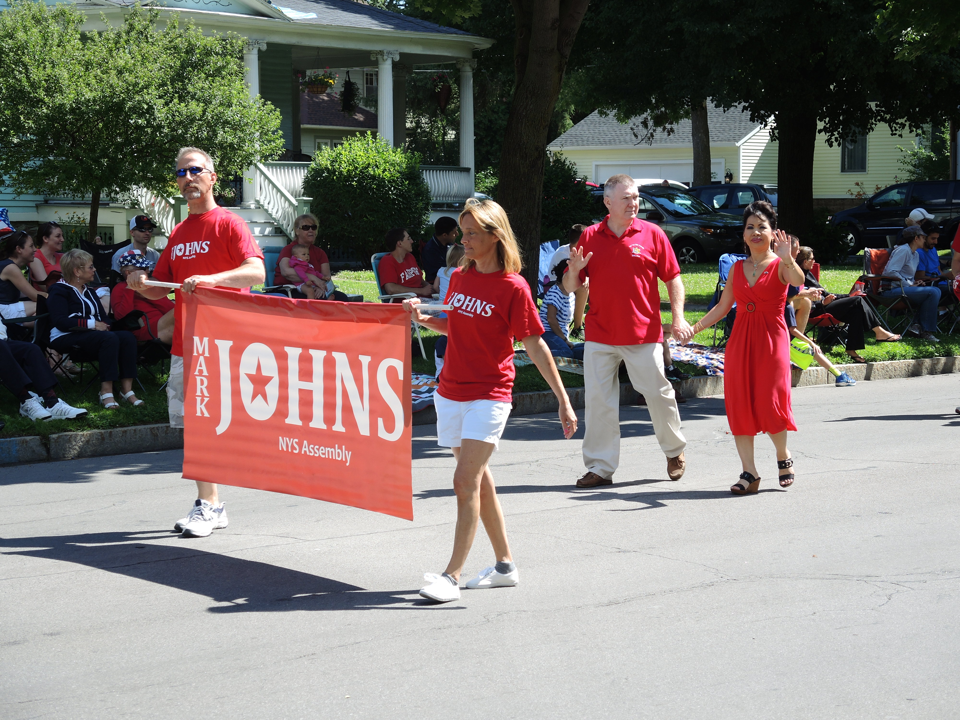 Mark C. Johns at the 2014 Independence Day parade in Fairport, New York